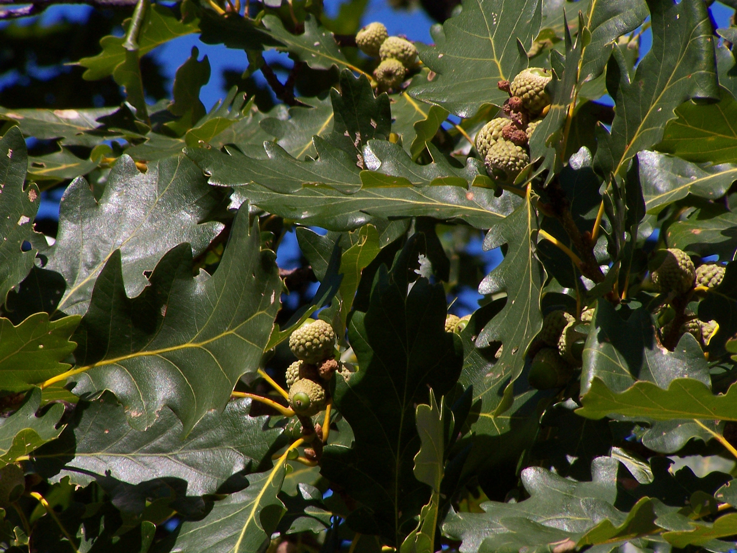 Quercus dalechampii, Valchiavenna, Italy